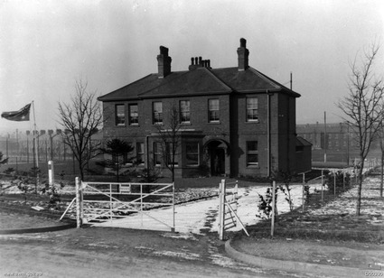 Exterior view of the residence, at Bhurtpore Barracks, of Major General James Whiteside M'Cay, General Officer Commanding, AIF Depots in England.